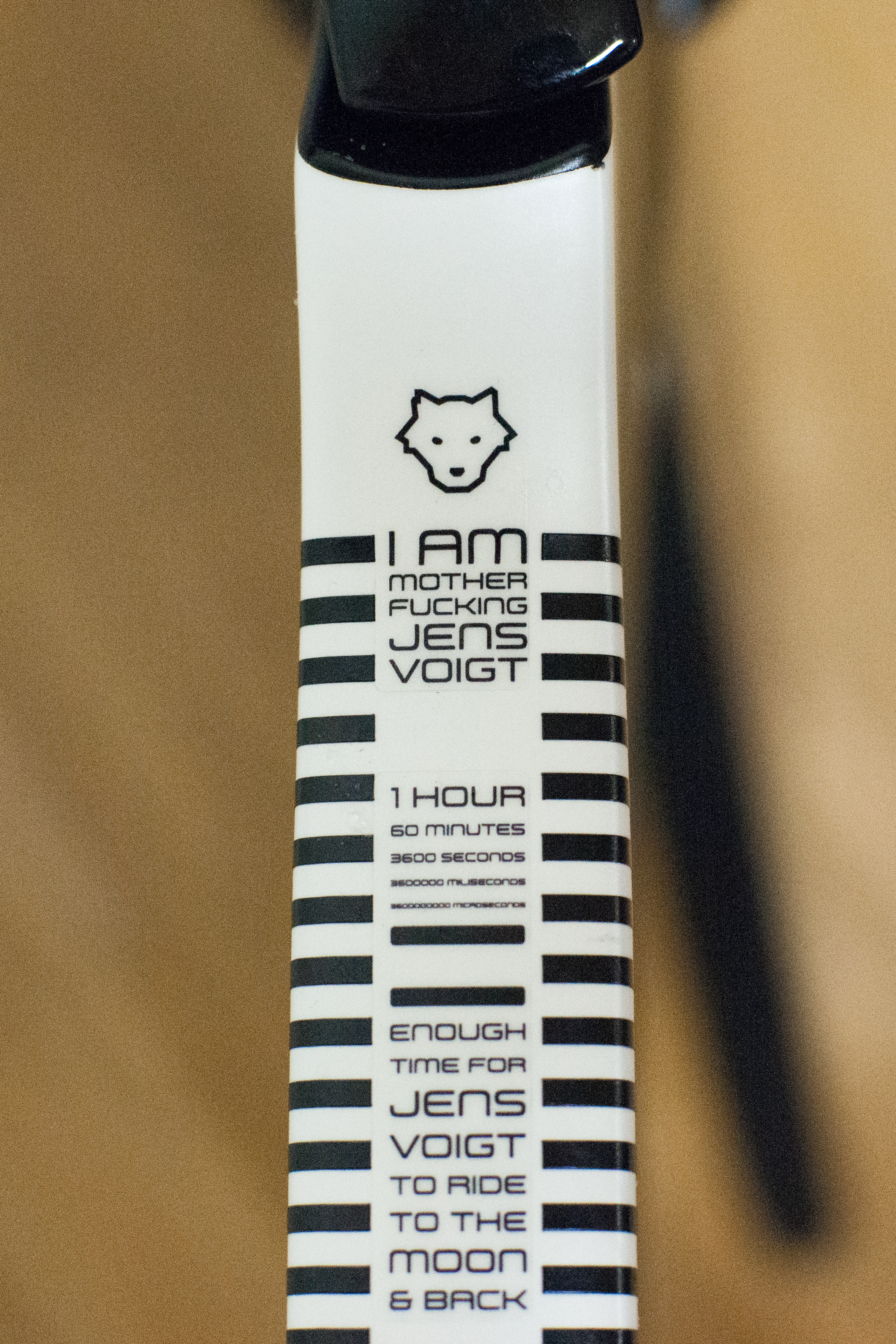 Jens Voigt - Hour Record - bike (details)